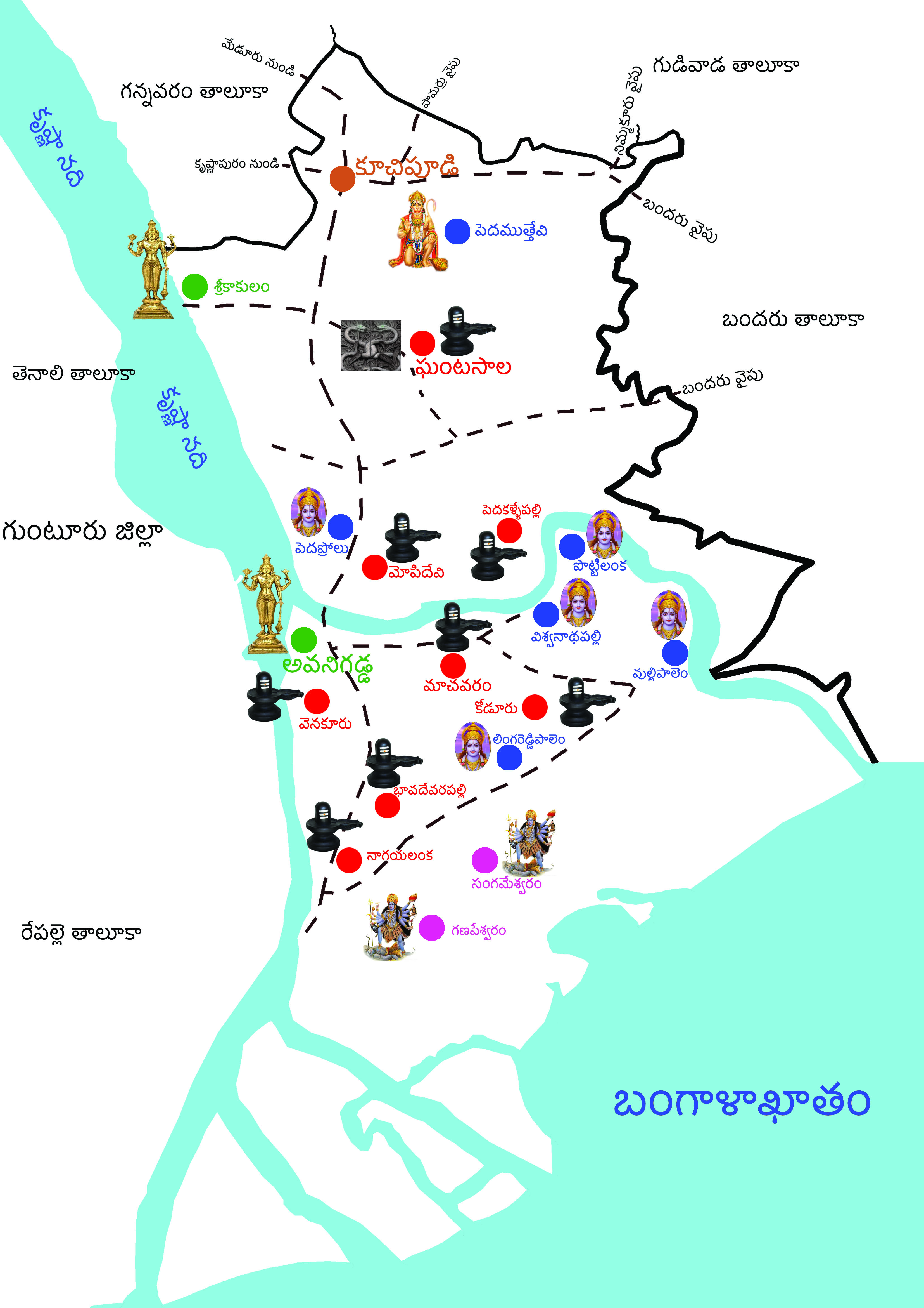 List of temples in Diviseema